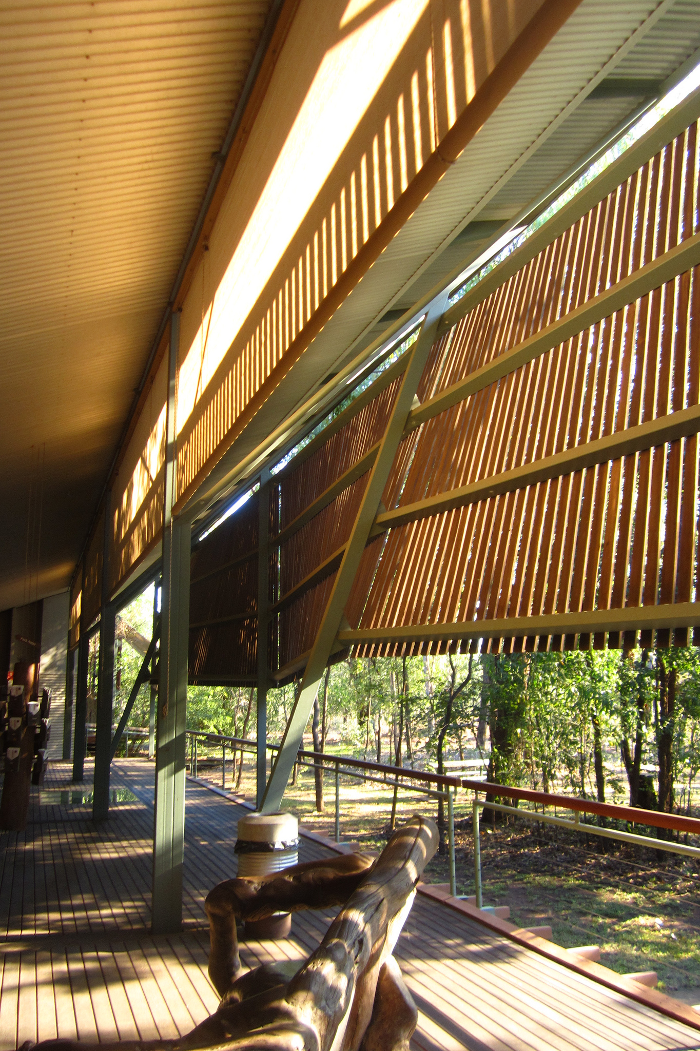 Facade of Kakadu Visitor Centre, designed by Glenn Murcutt